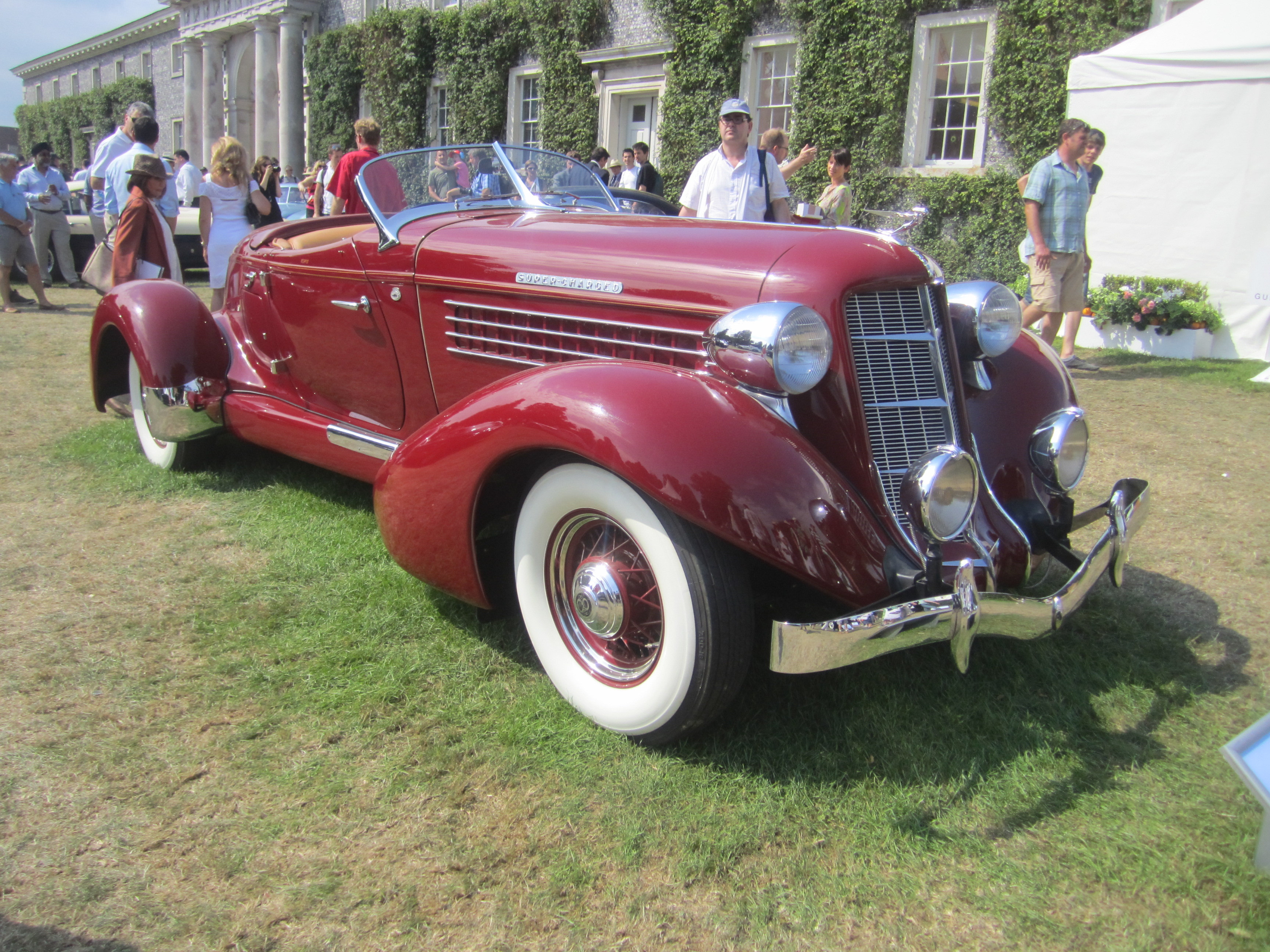 Taken at the Goodwood Festival of Speed 2011 Cartier Style Et Luxe Concours D'elegance